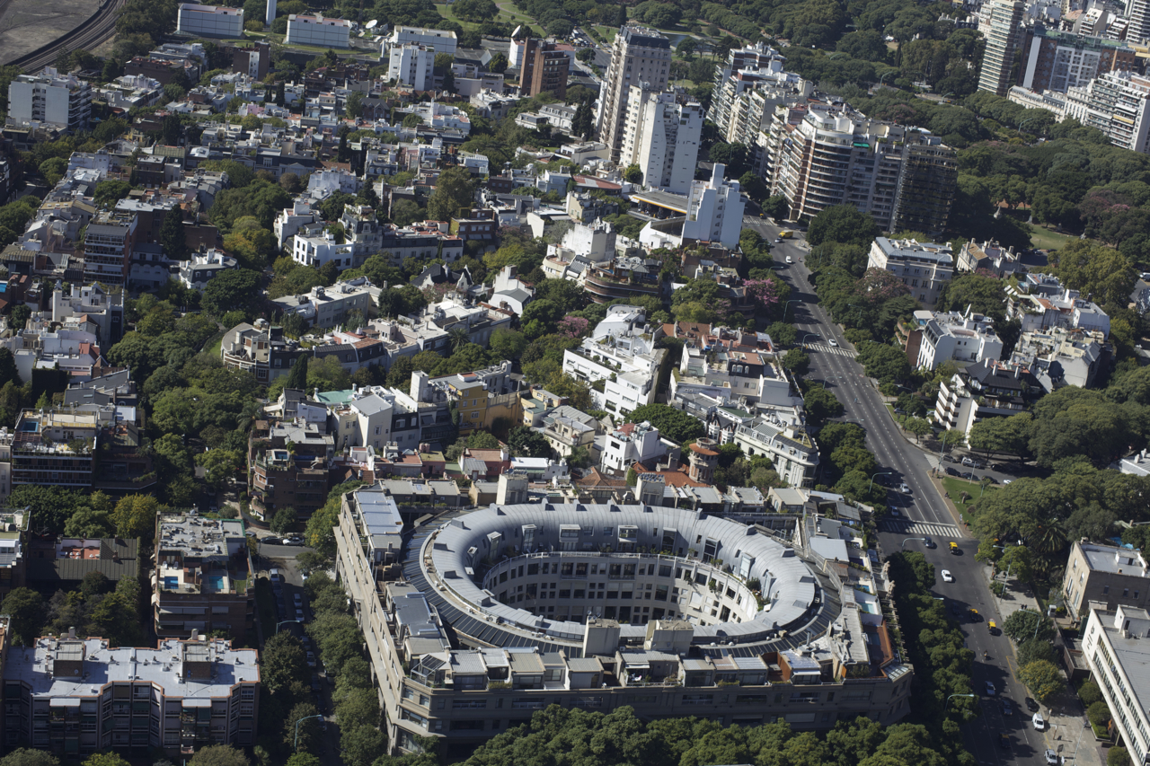 Figueroa Alcorta Avenue and the Barrio Parque section of the Palermo ward, in Buenos Aires.